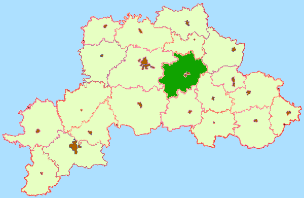 Mogilev Region map by Al Silonov